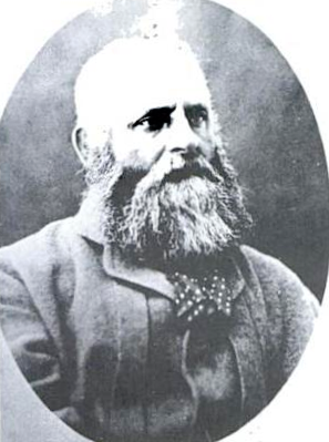 Photograph of William Palgrave - Windhoek Archives - Namibia